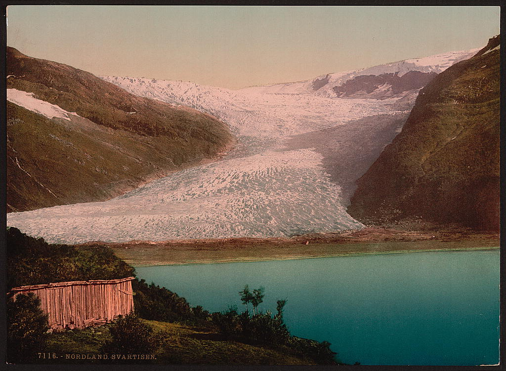 Svartisen, Nordland, Norway]